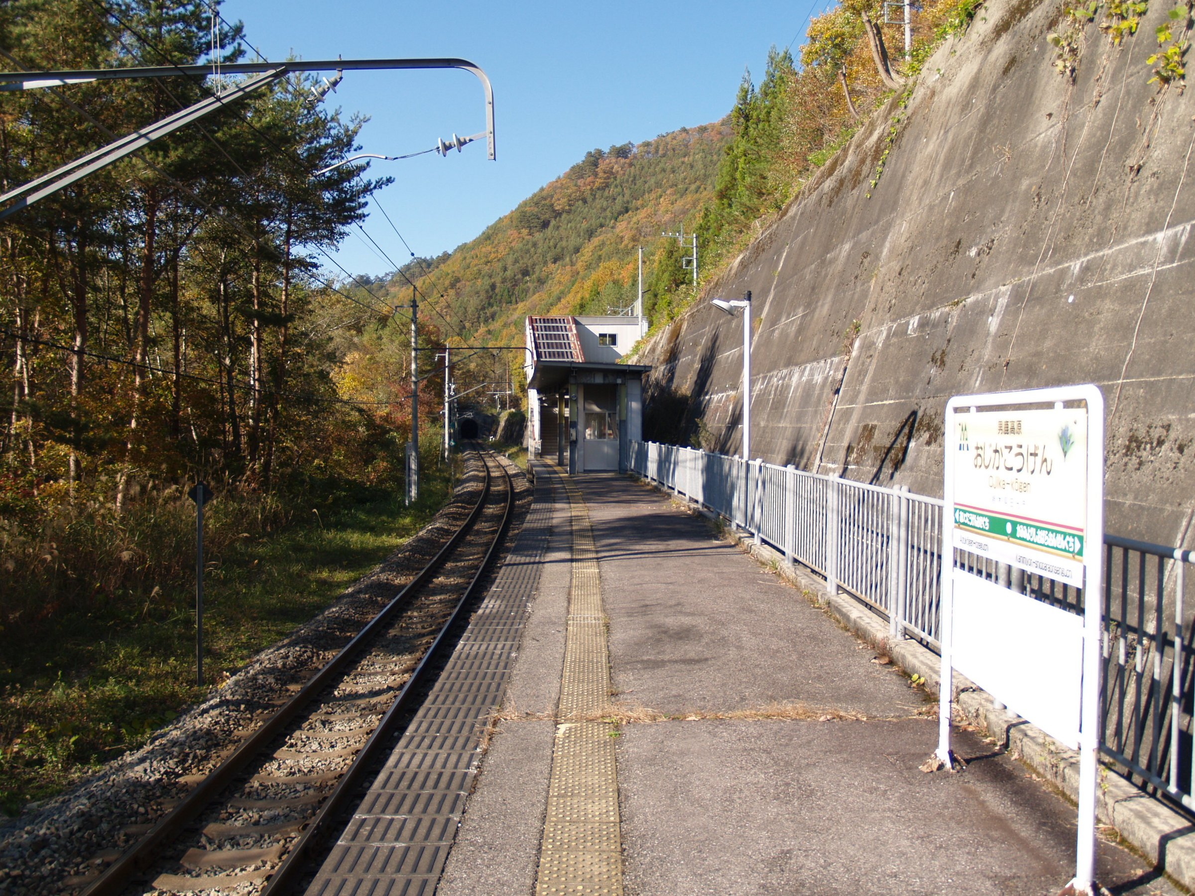 Platform of Ojikakogen Station, Tochigi Pref., Japan